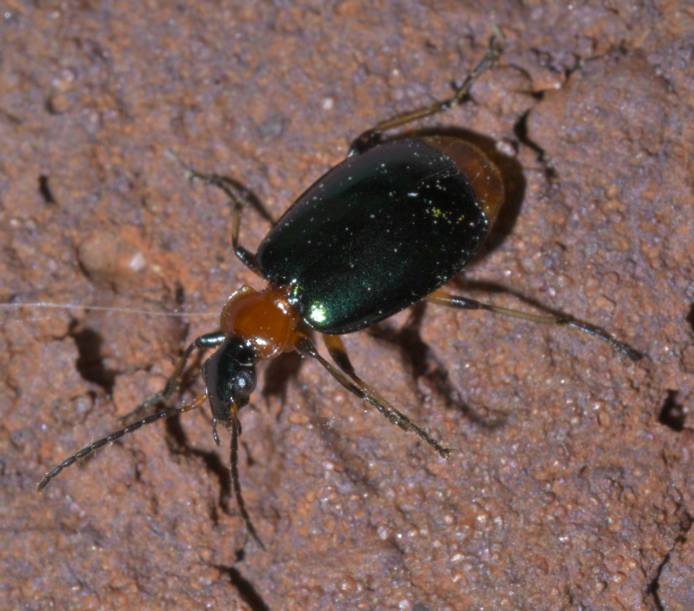 Lebia viridipennis, Green-winged Lebia, ID Confidence: 88